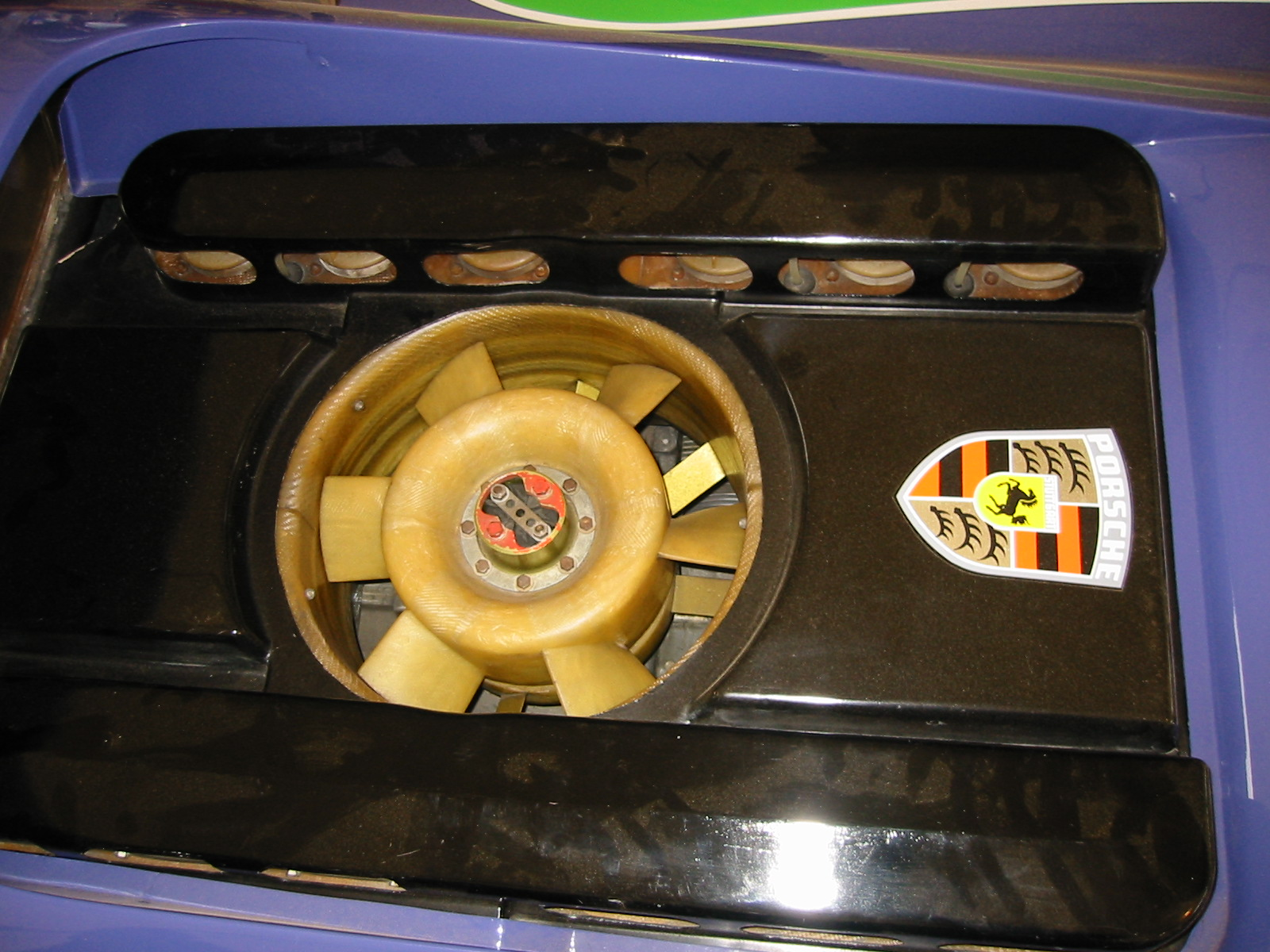 A look down the turbofan on a Porsche 917